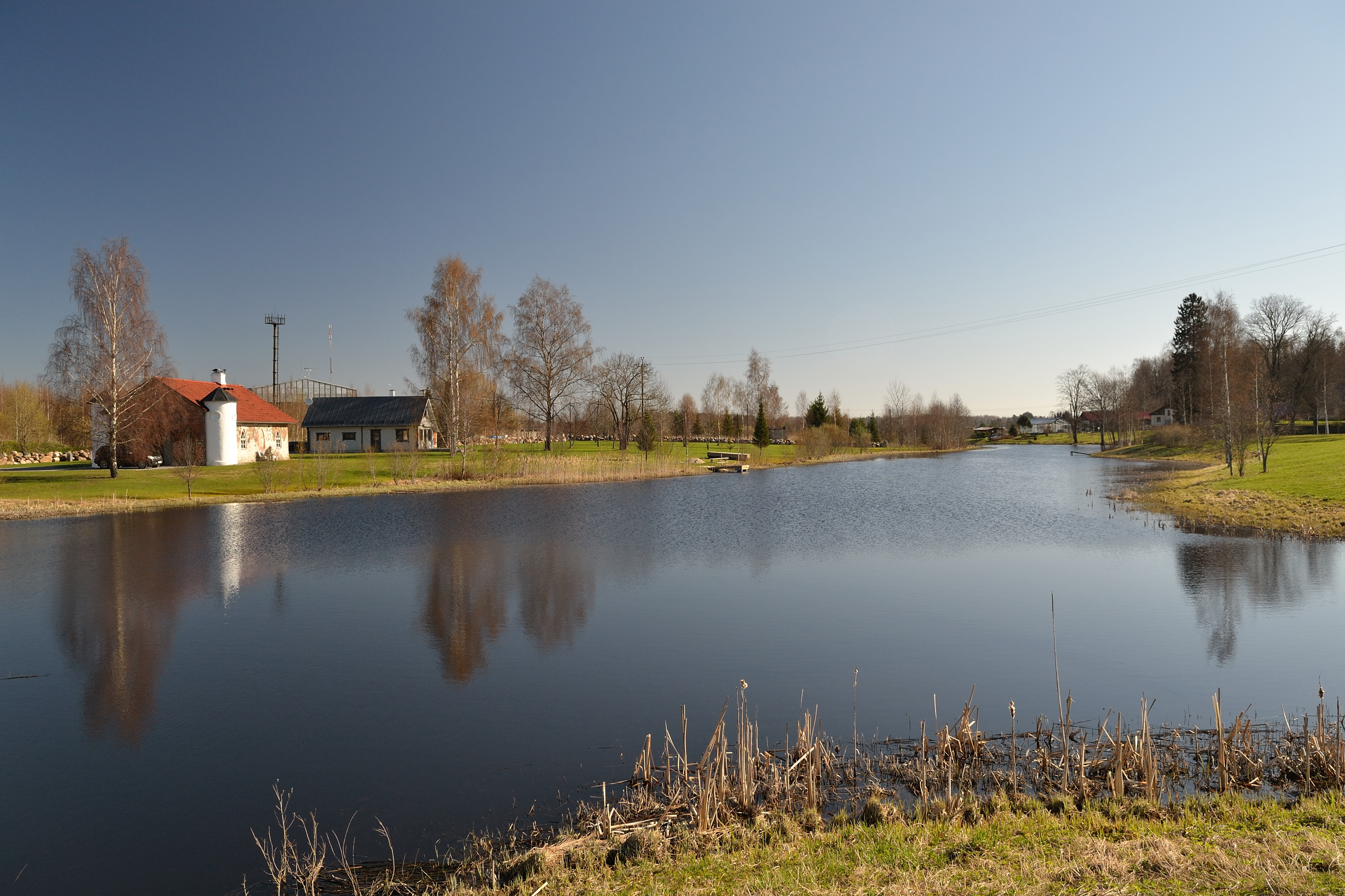 Käru impounded lake (Ingliste stream)